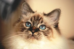 Heilige Birma Katze in seal-tabby-point